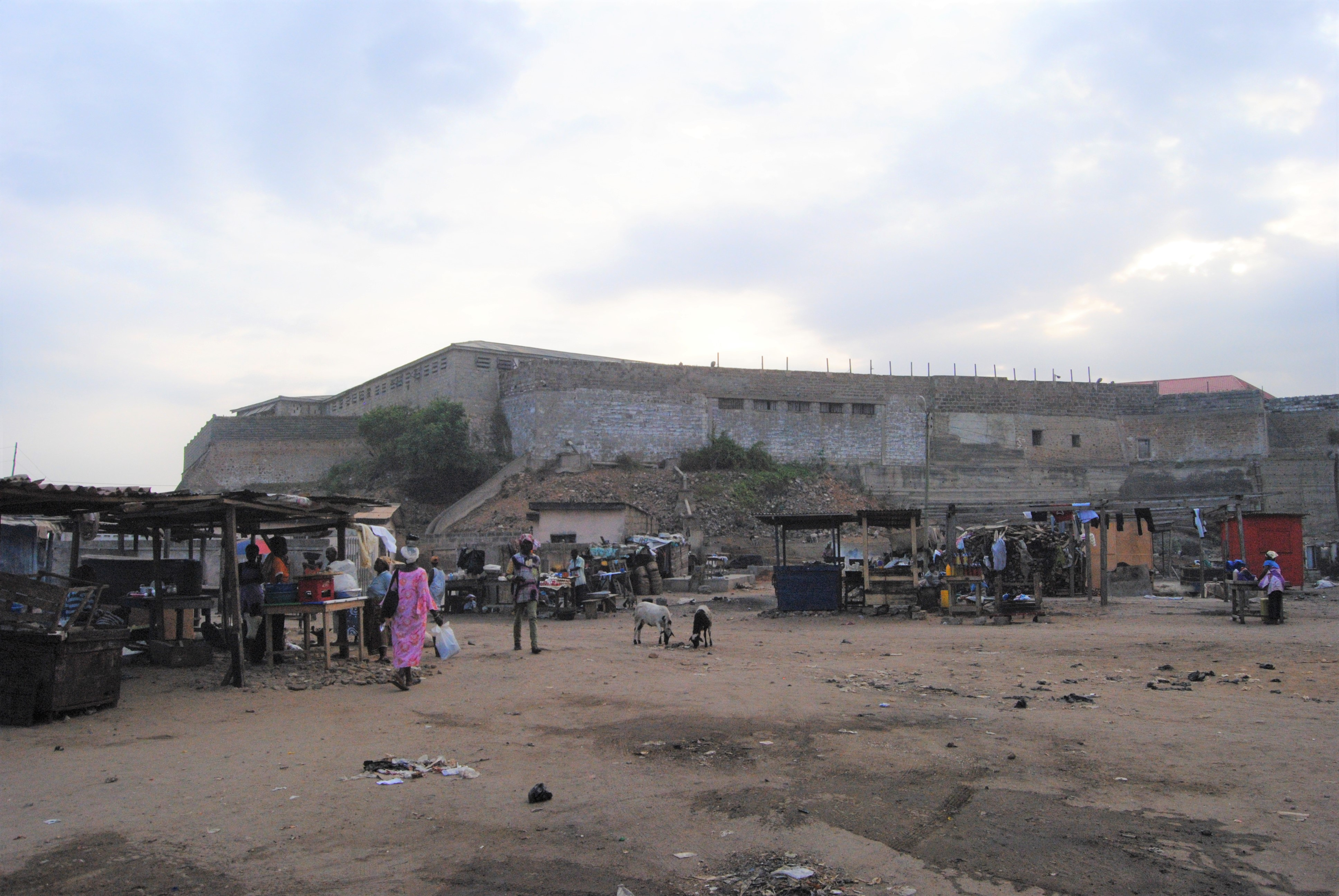 James Fort in Accra as seen from the beach in Jamestown, taken 2010.